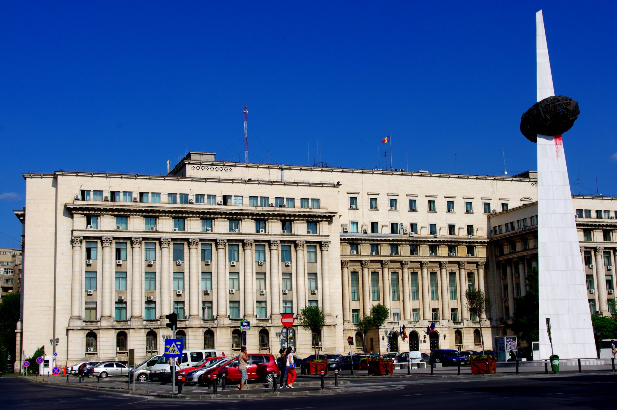 Senate Building